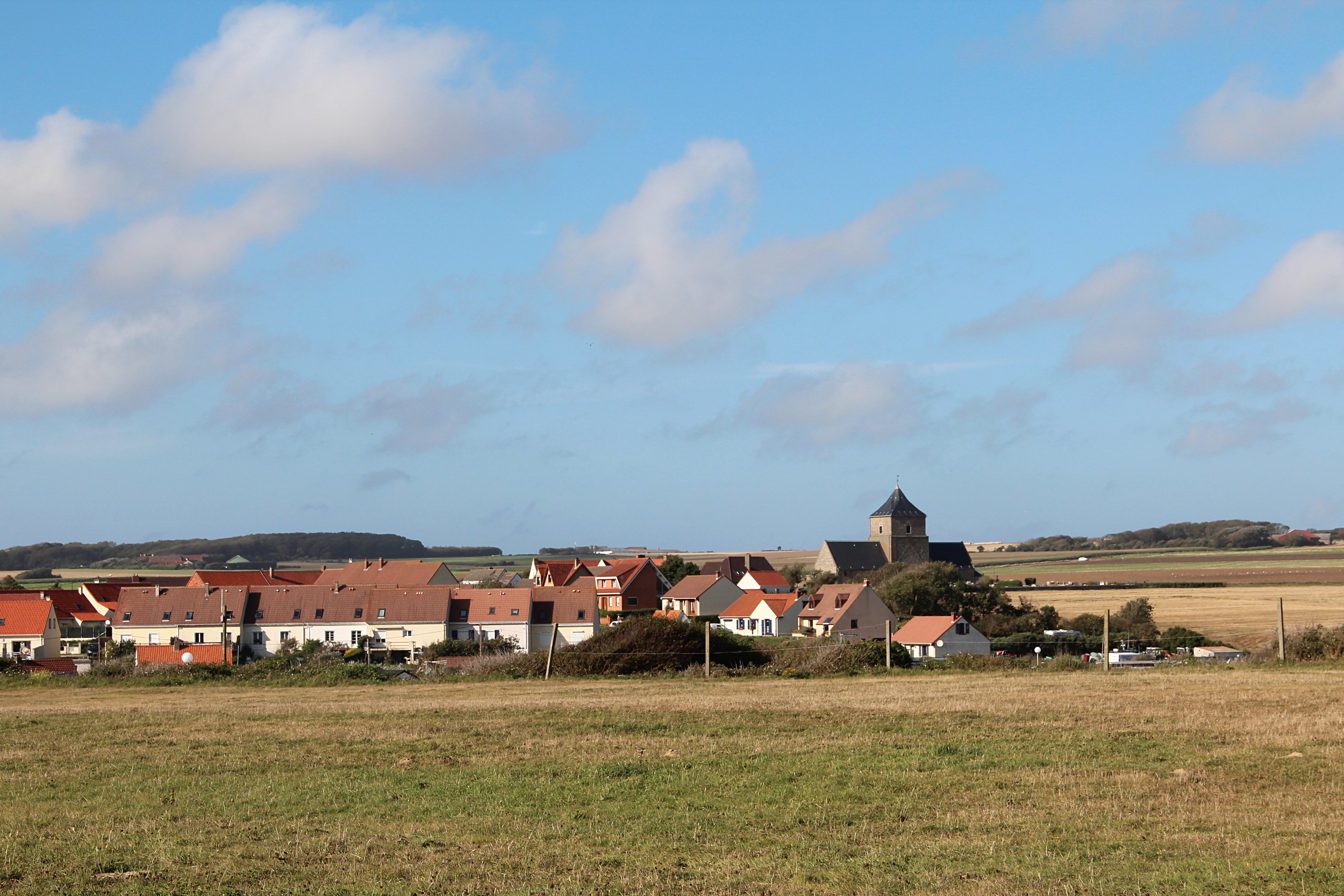 Audresselles (Pas-de-Calais), France. – Eastern part of the village seen from the south.